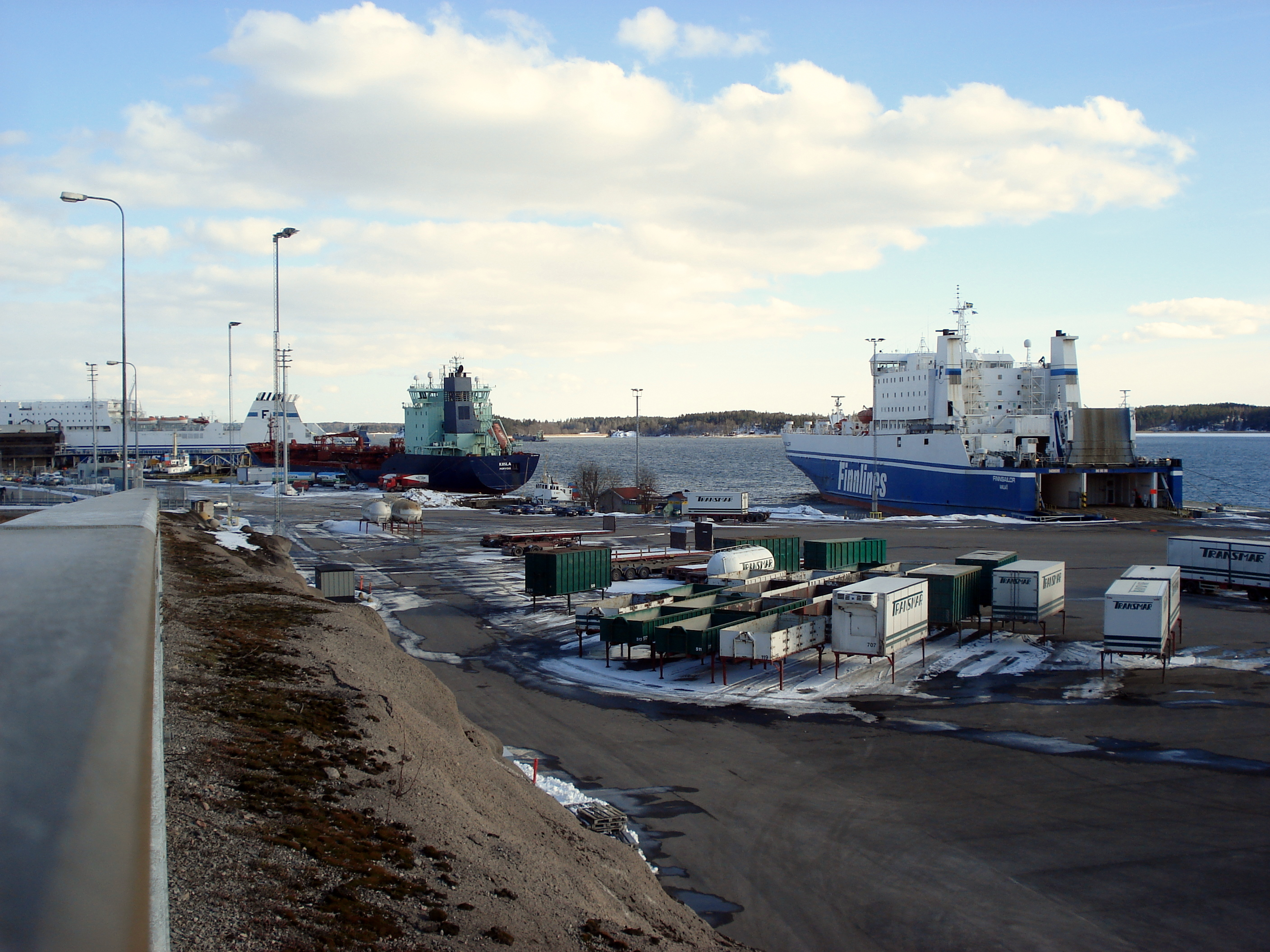 Ships at Port of Naantali, Naantali, Finland. Left to right: M/S Finnclipper, M/T Kiisla and M/S Finnsailor. Finnclipper Flag: Sweden IMO Number: 9137997 MMSI Number: 266192000 Callsign: SFZO Length: 188 m Beam: 30 m Kiisla Flag: Finland IMO Number: 9267558 MMSI Number: 230956000 Callsign: OJKY Length: 140 m Beam: 22 m Finnsailor Flag: Sweden IMO Number: 8401444 MMSI Number: 265038000 Callsign: SBHY Length: 157 m Beam: 24 m